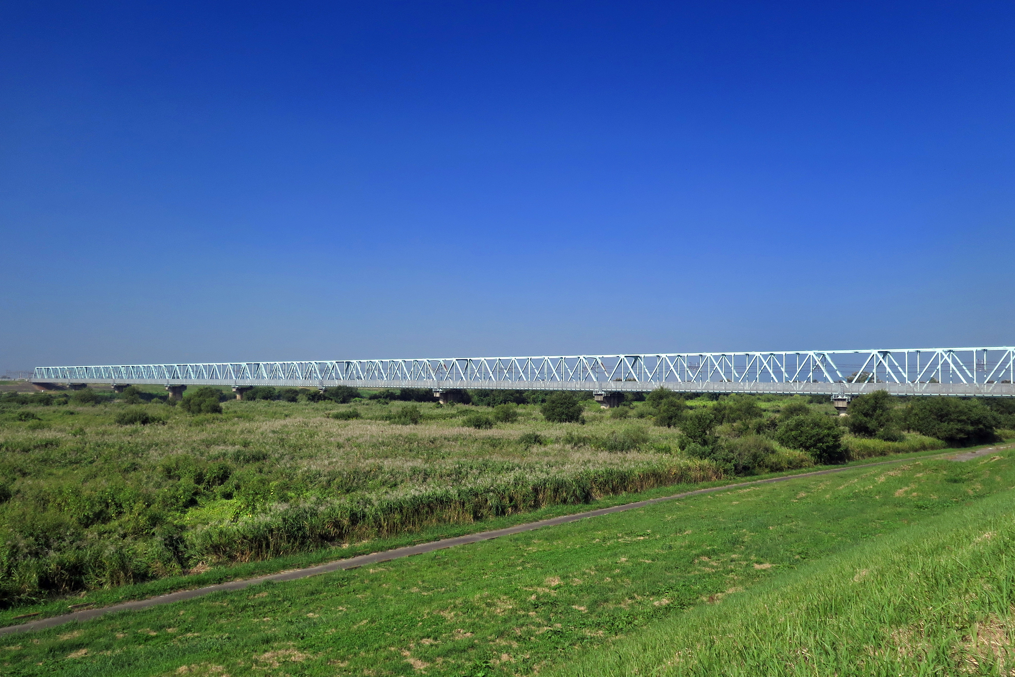 Tōhoku Main Line Tonegawakyōryō Bridge Koga City, Ibaraki prefecture, Japan